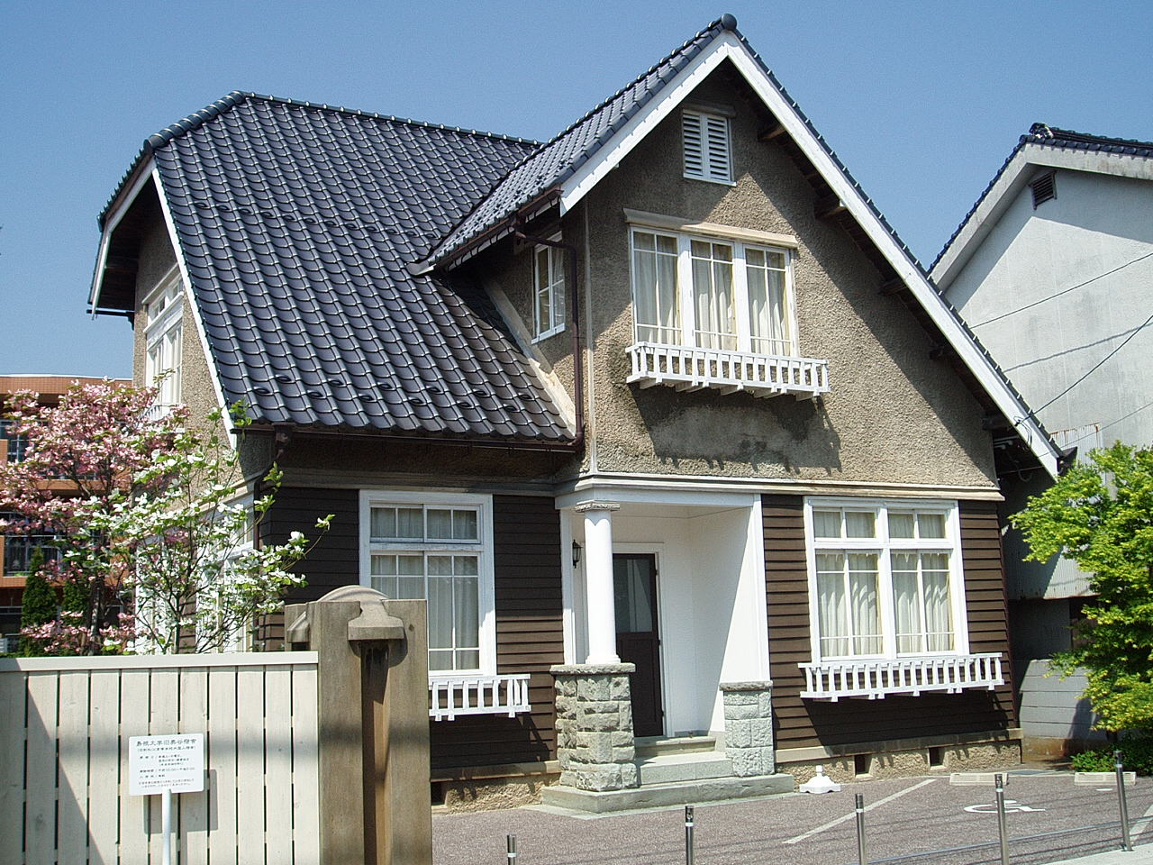 The Shimane University Old Okudani Lodging (The Matsue Senior High School Foreign Lodging)[1], located in Matsue, Shimane, Japan. A registered tangible cultural property of Japan (#32-0046).